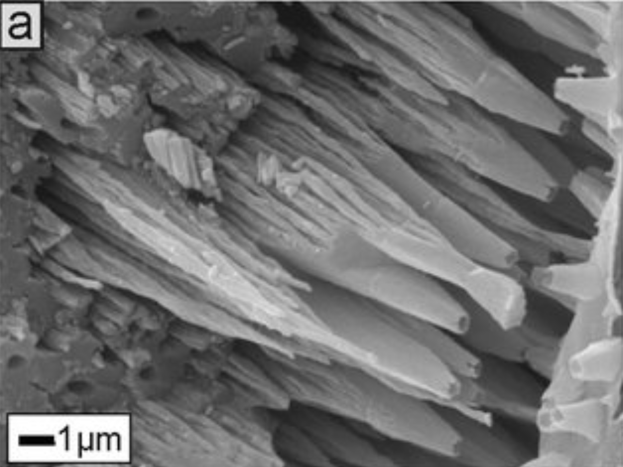 SEM image of the microstructure of the test of a lagenid foraminifera, showing fibre-bundles composed of a single calcite crystal each, and each bearing trigonal symmetry and a central pore.